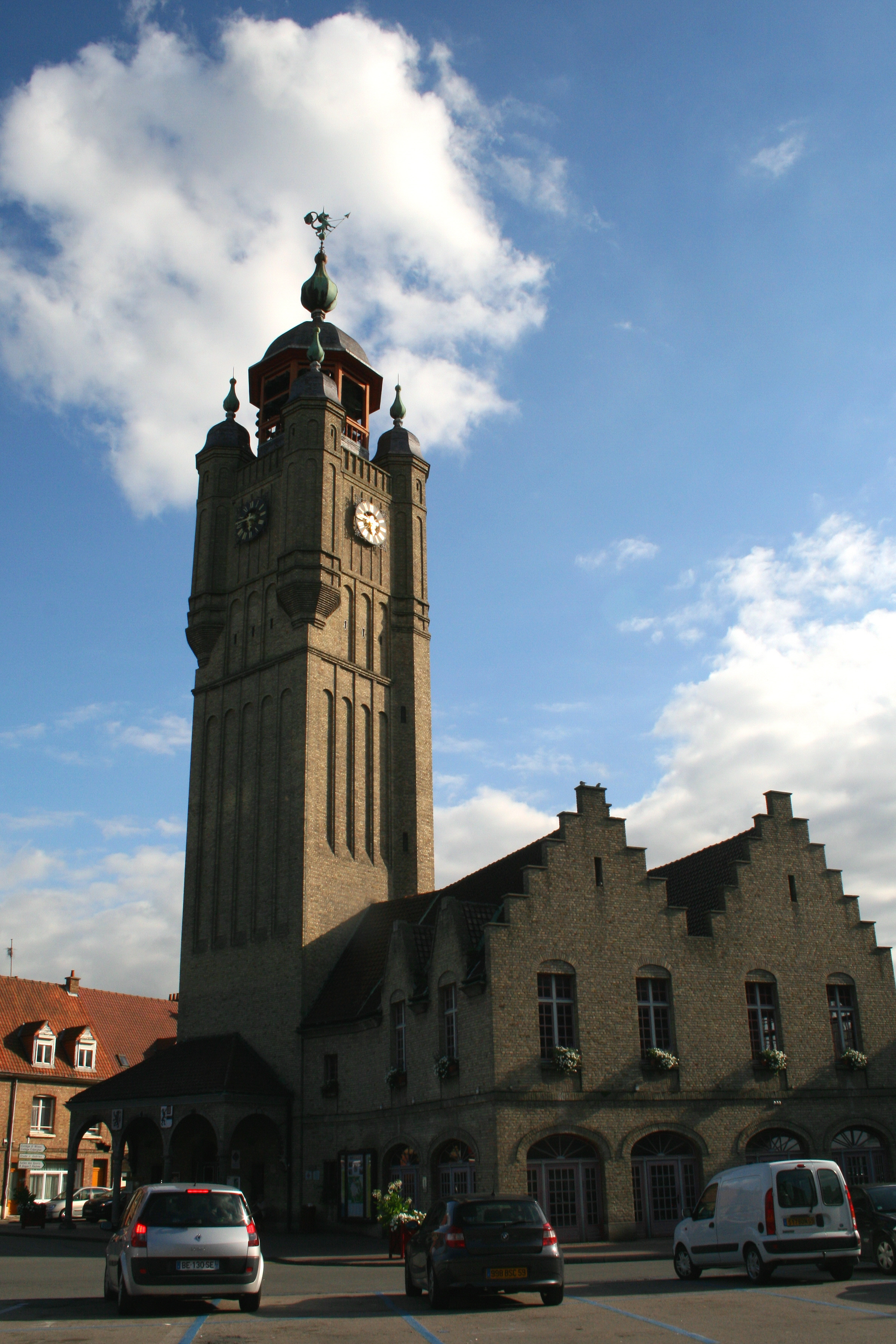 Bergues (Nord) France, the belfry.